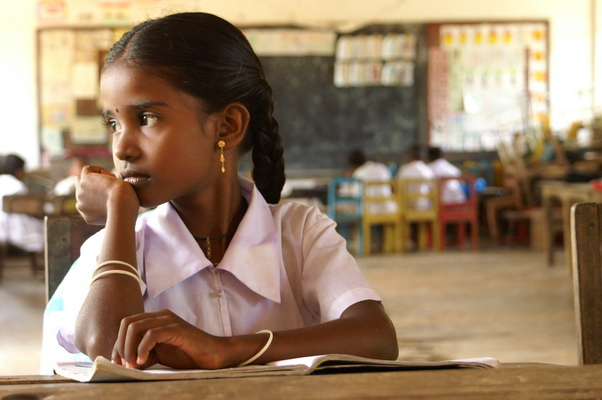 A class of Veddah tribe children. Dambana, Sri Lanka.